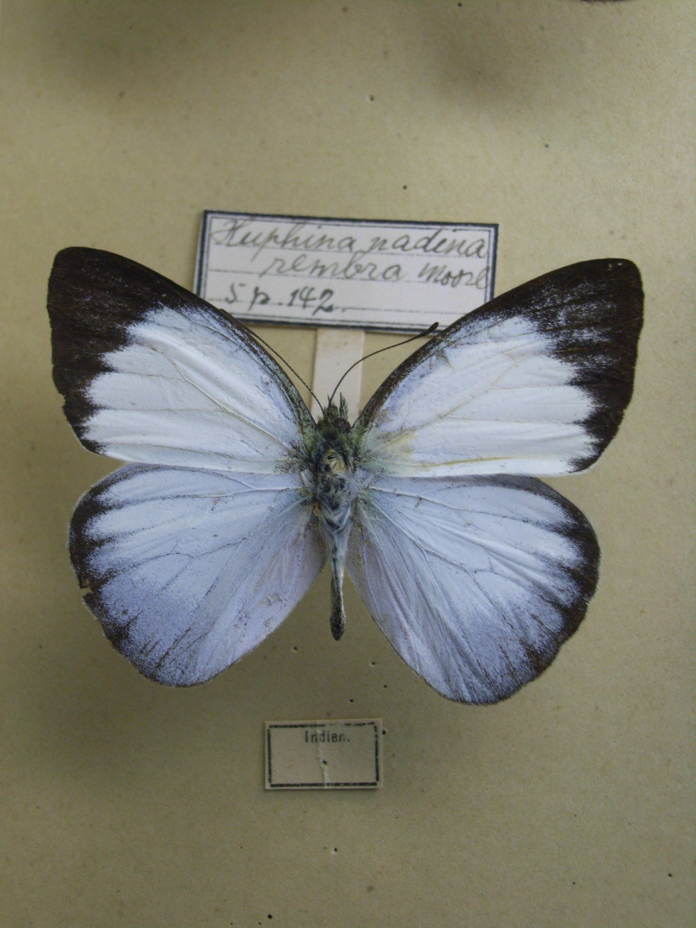 Cepora nadina remba Moore syn.gen. Huthina Pieridae Ex coll. Museum Wiesbaden